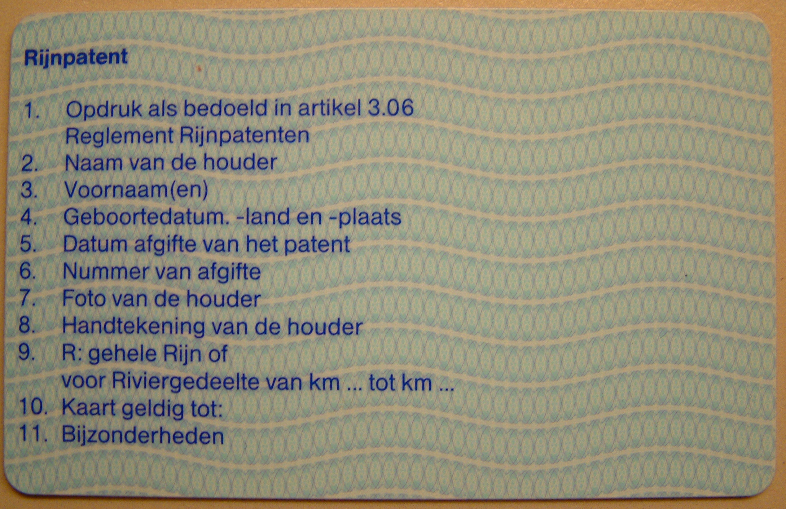 A licence to sail a ship on the Rhine in the Netherlands (back).